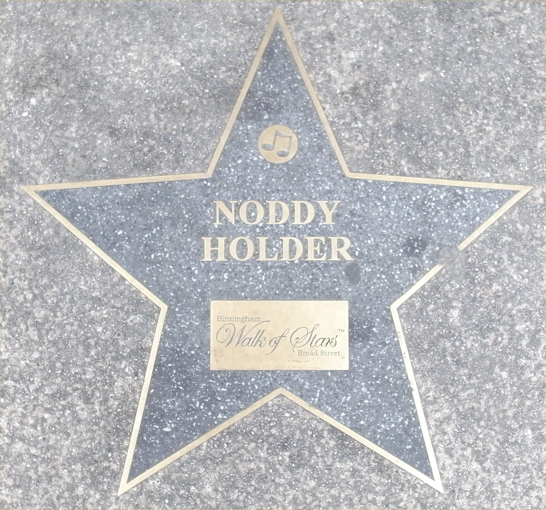 Star for Noddy Holder on the Birmingham Walk of Stars on :en:Broad Street, Birmingham]|Broad Street, Birmingham , England. Set in the pavement in December 2007. Photographed by me 13 March 2008. Oosoom 21:26, 13 March 2008 (UTC)